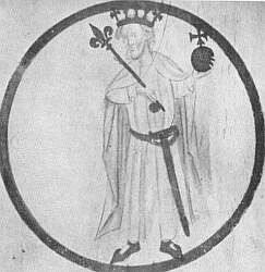 James II of Aragon